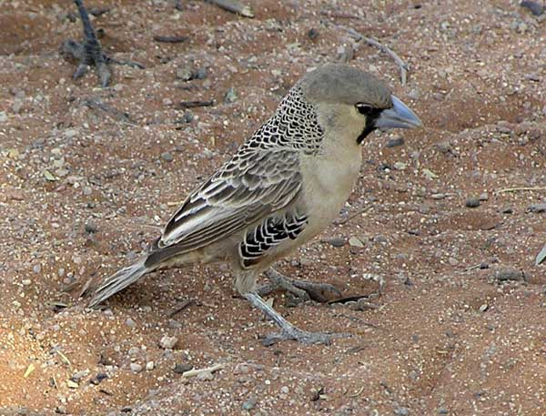 Sociable Weaver, Philetairus socius at Sesriem, Hardap, Namibia